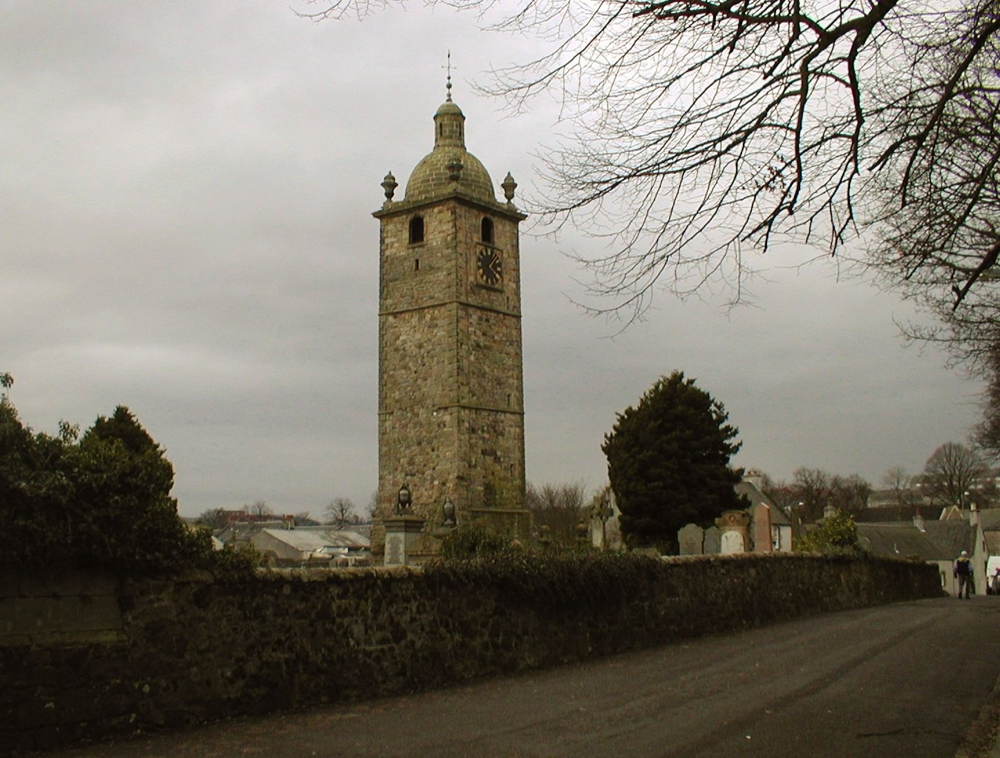 Photographer by user AllyD